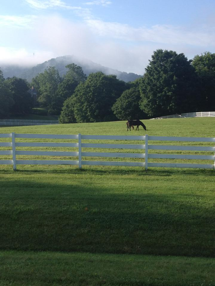 Bent Tree Farm at Walnut Grove in Shawsville, Virginia.